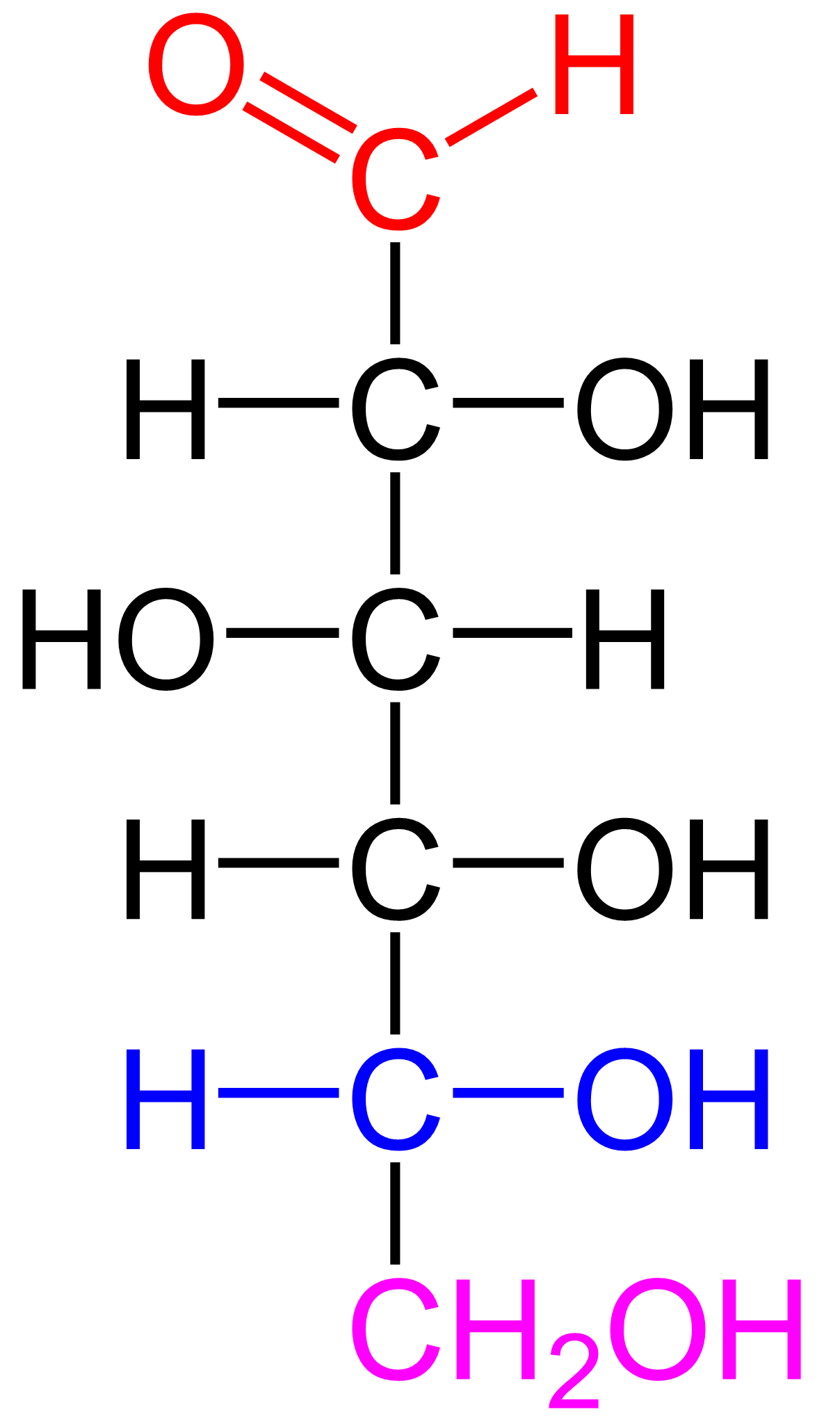 A color-coded Fischer projection of D-glucose. Red group: The aldehyde functional group Blue group: The terminal asymmetric center Purple group: The terminal carbon (symmetric, therefore not a chiral center)